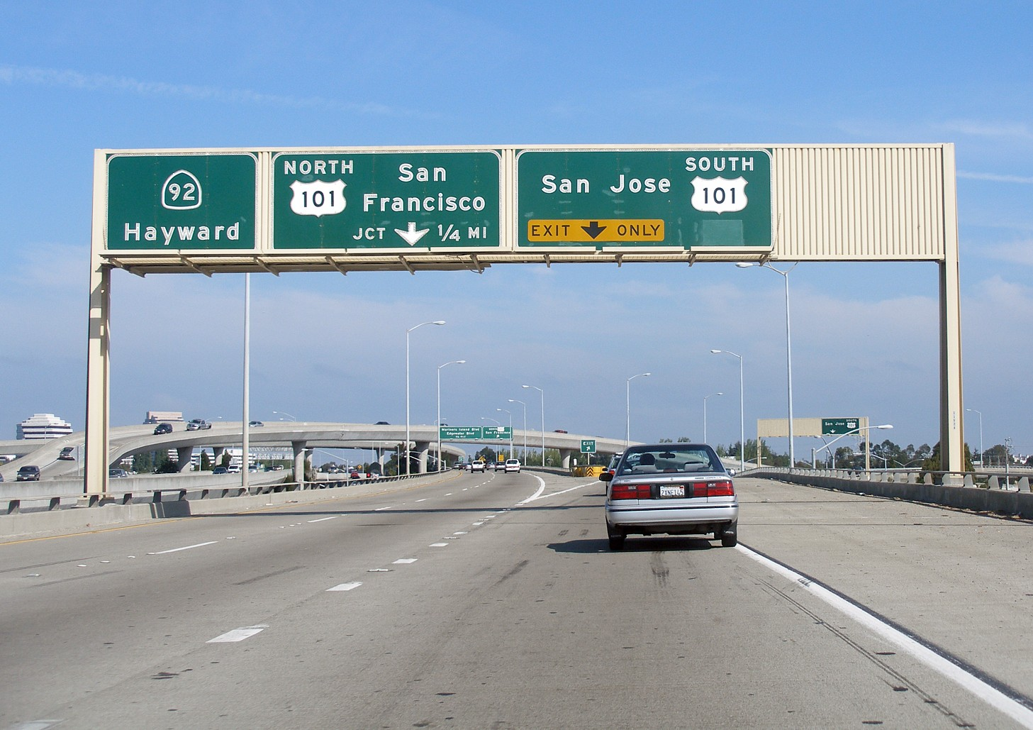 State Route 92 eastbound in San Mateo, California. Photographed by user Coolcaesar on September 29, 2006 .